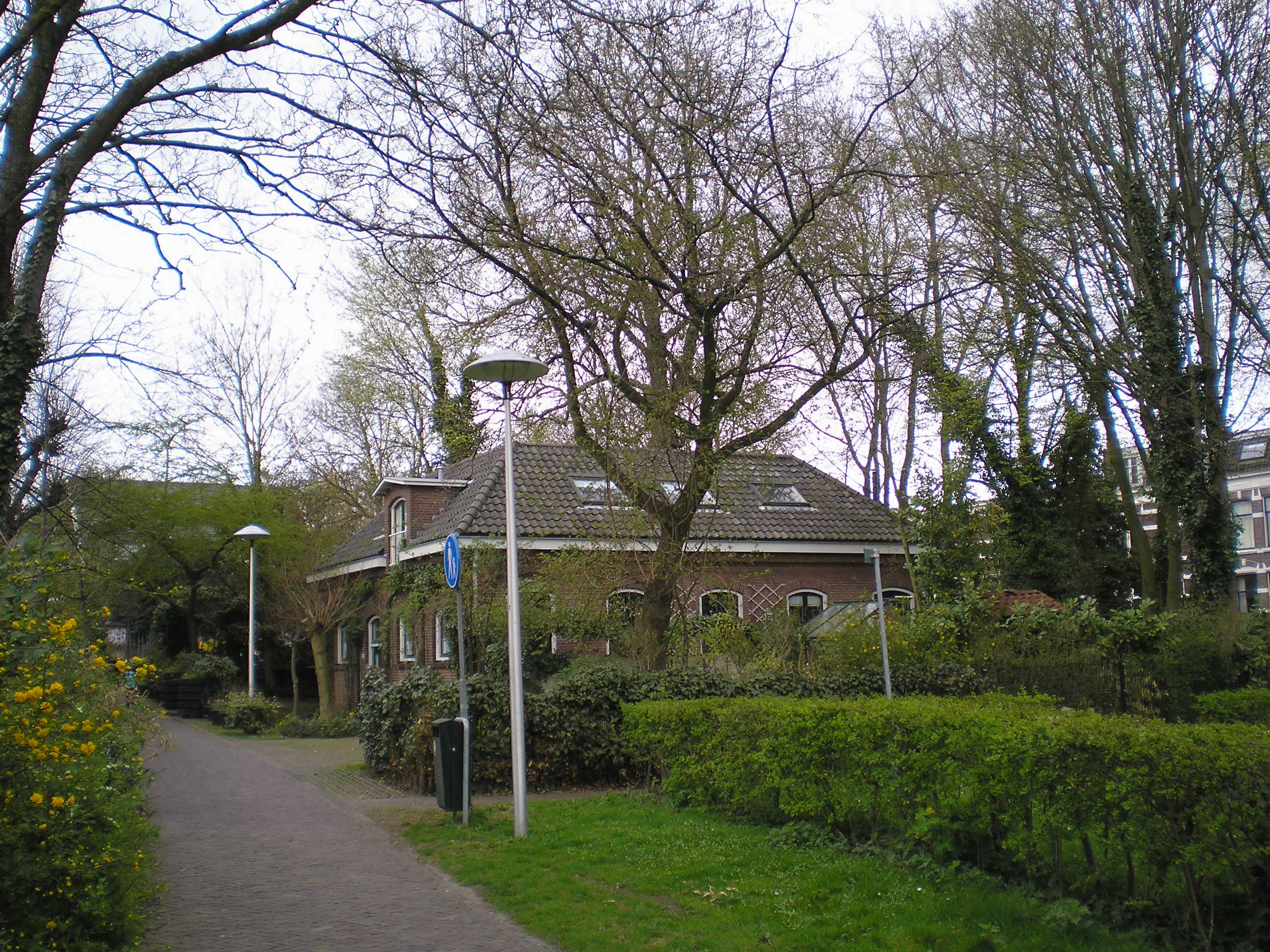 Veeartsenijpad in Utrecht in the Netherlands